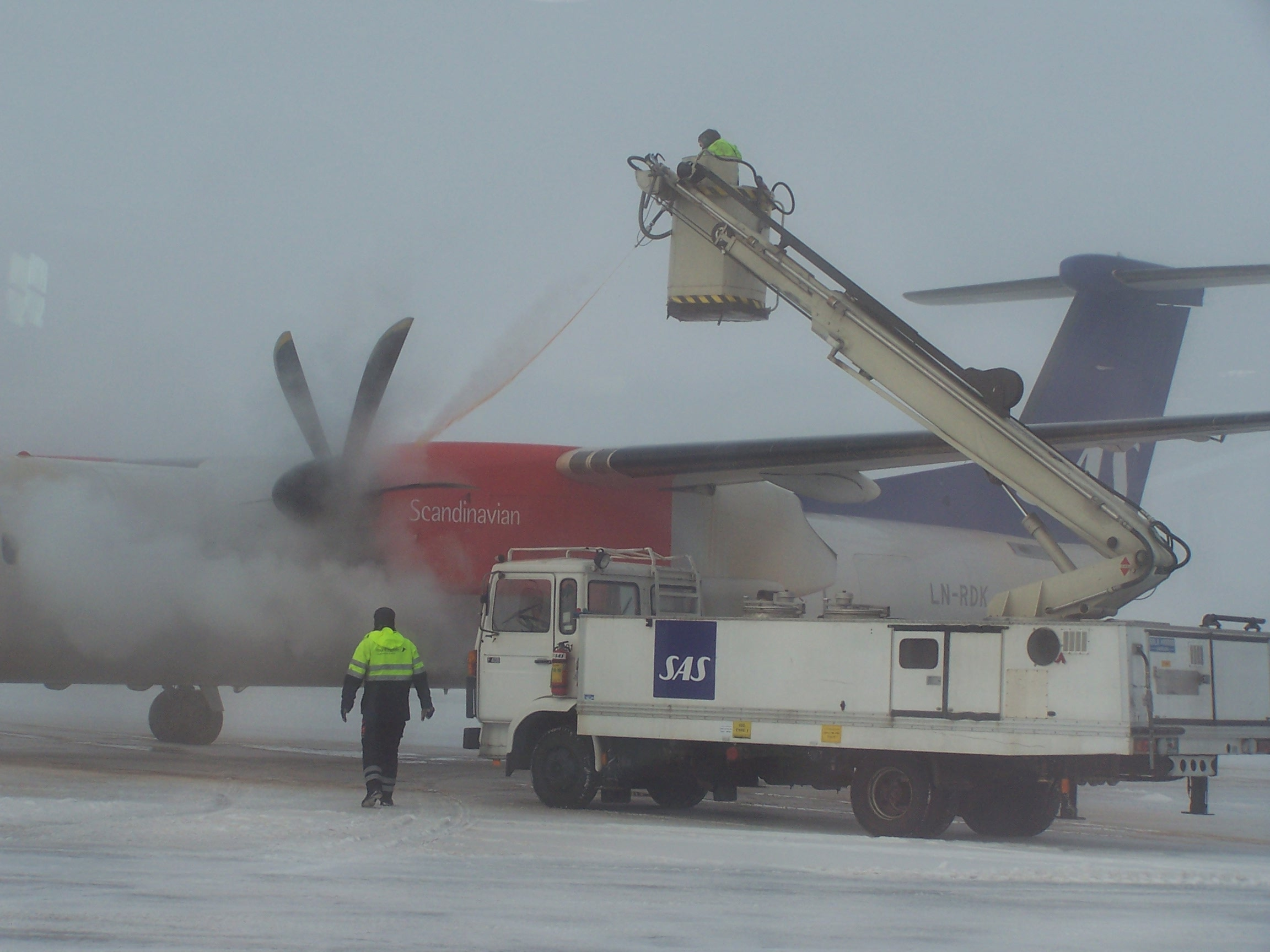 Deicing of propeller on a De Havilland Canada DHC-8-402Q Dash 8, Växjö Airport.